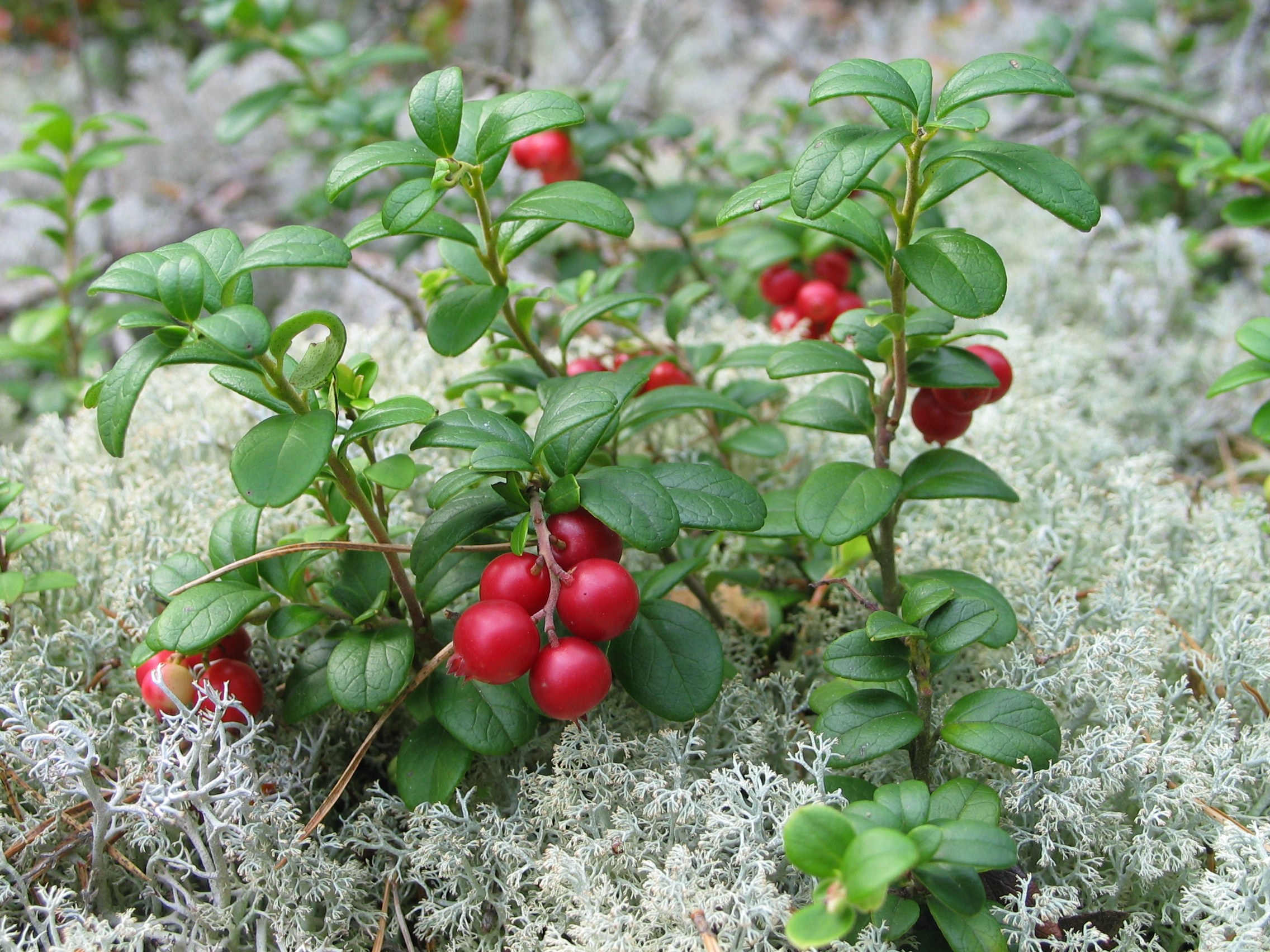 Vaccinium vitis-idaea, photo taken in Sweden.